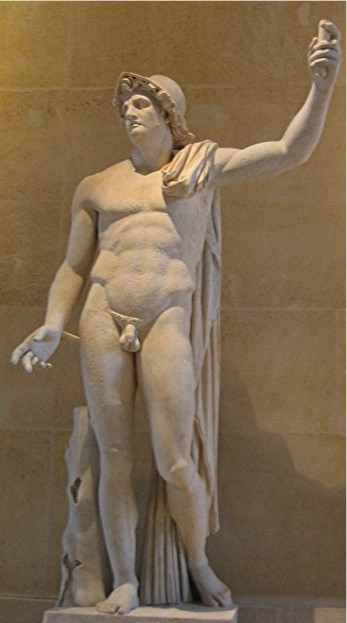 Alexander the Great